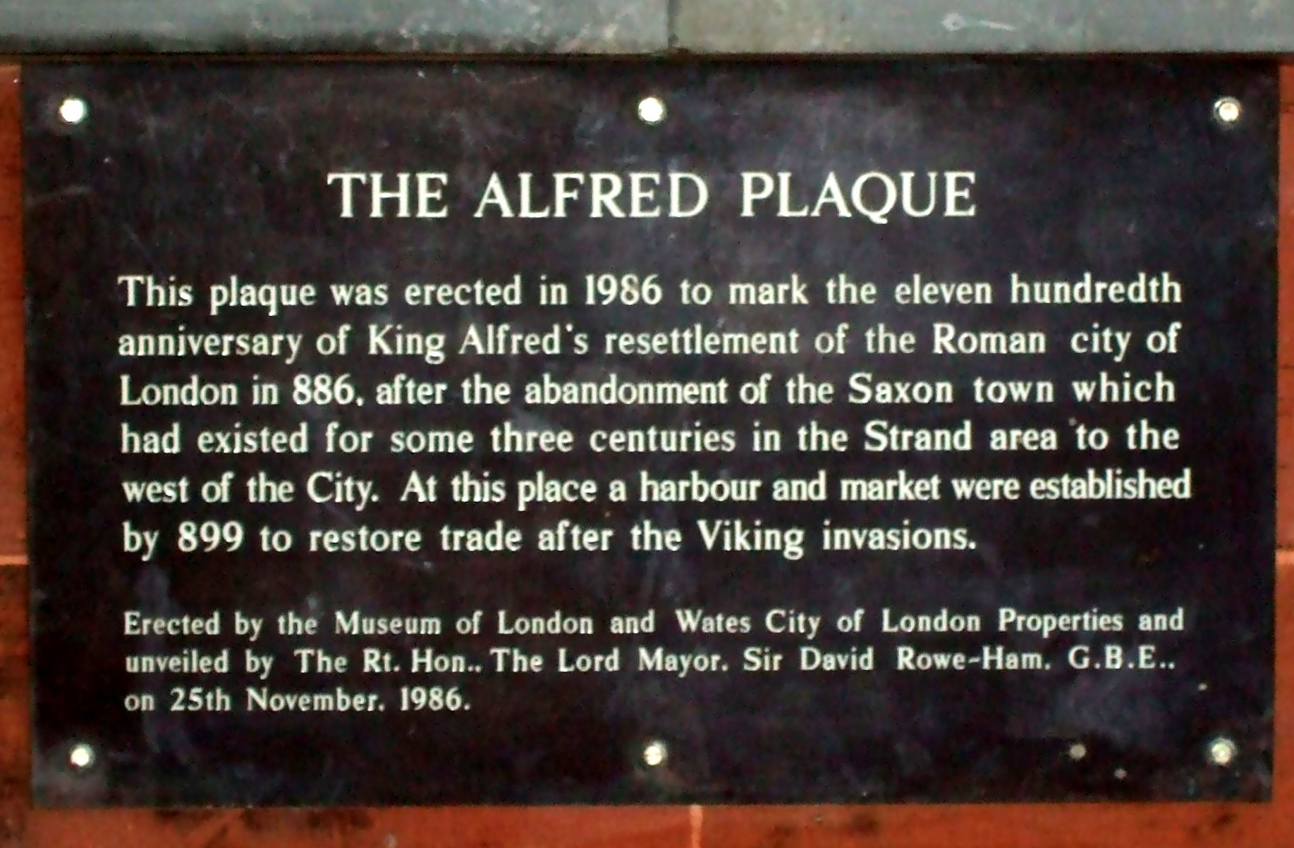 Plaque describing the restoration of the City of London by Alfred the Great. It is located on the City shoreline of the River Thames, near to Southwark Bridge.